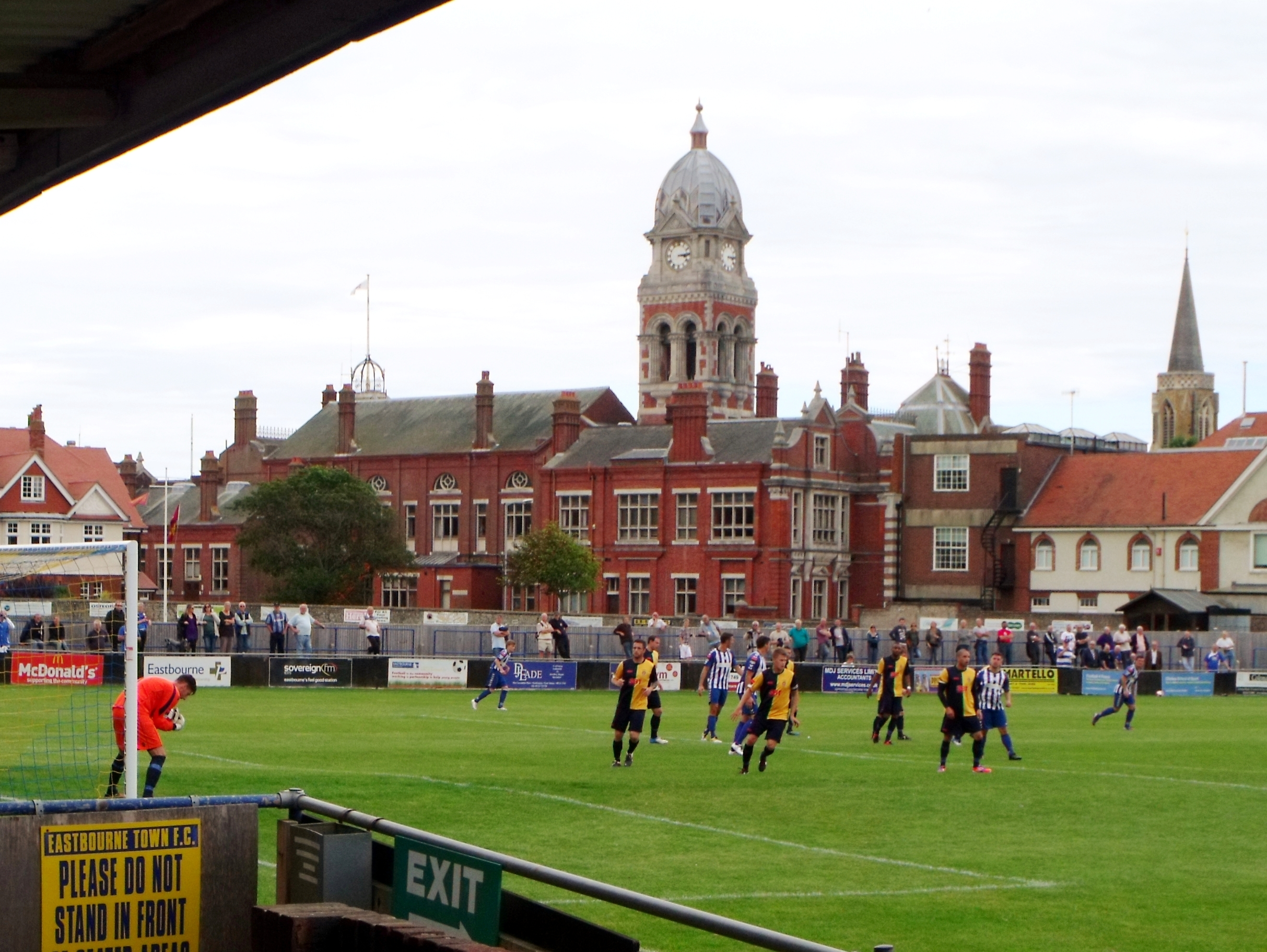 At the Saffrons again for Eastbourne Town.